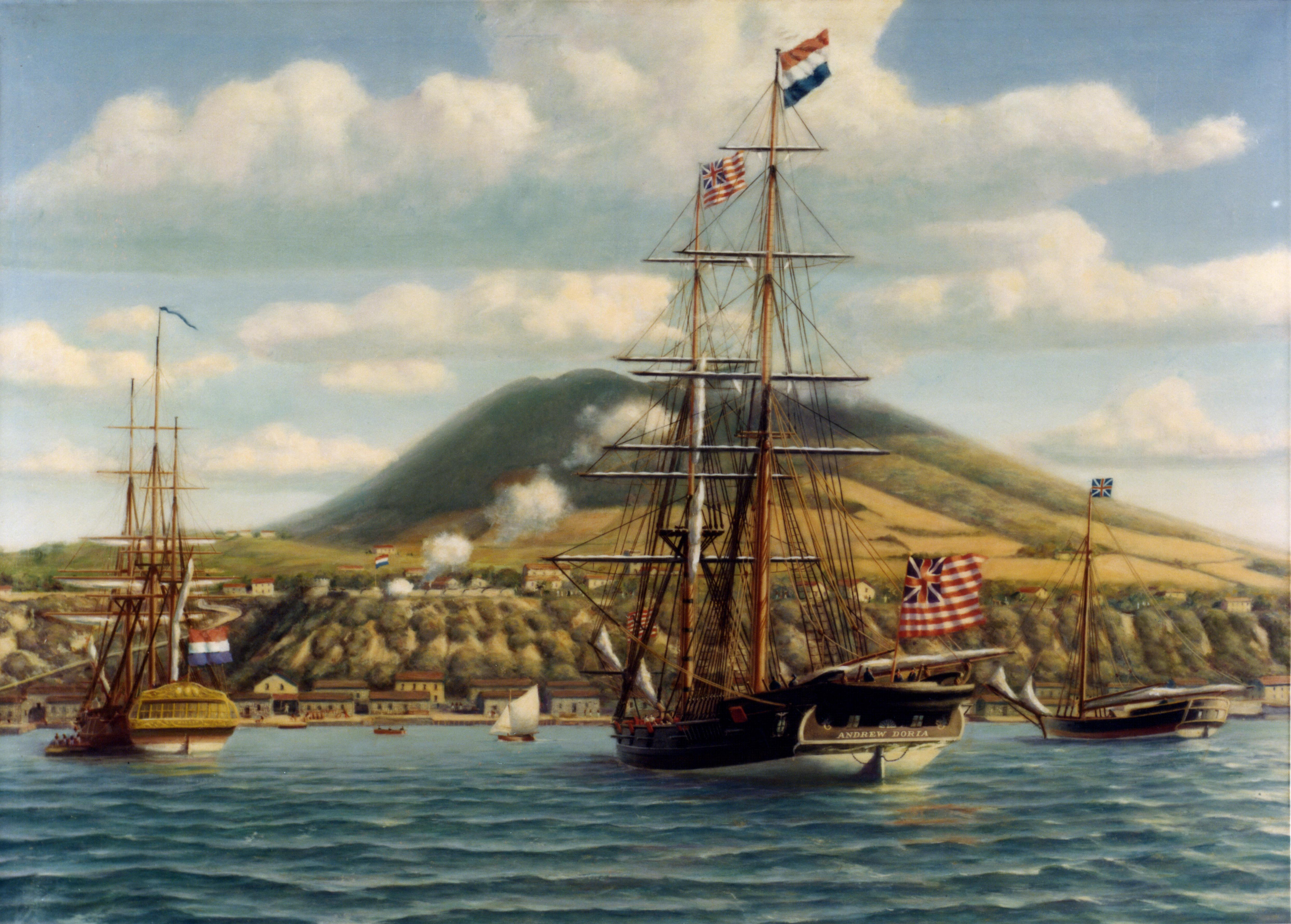 Photo #: NH 85510-KN (color). First official salute to the American flag on board an American warship in a foreign port, 16 November 1776. Painting by Phillips Melville, depicting Continental Brig Andrew Doria receiving a salute from the Dutch fort at St. Eustatius, West Indies, 16 November 1776. The artist shows the "Grand Union" flag flying at Andrew Doria 's stern and foremast peak. Courtesy of the U.S. Navy Art Collection, Washington, D.C. Donation of Colonel Phillips Melville, USMC (Retired), 1977.